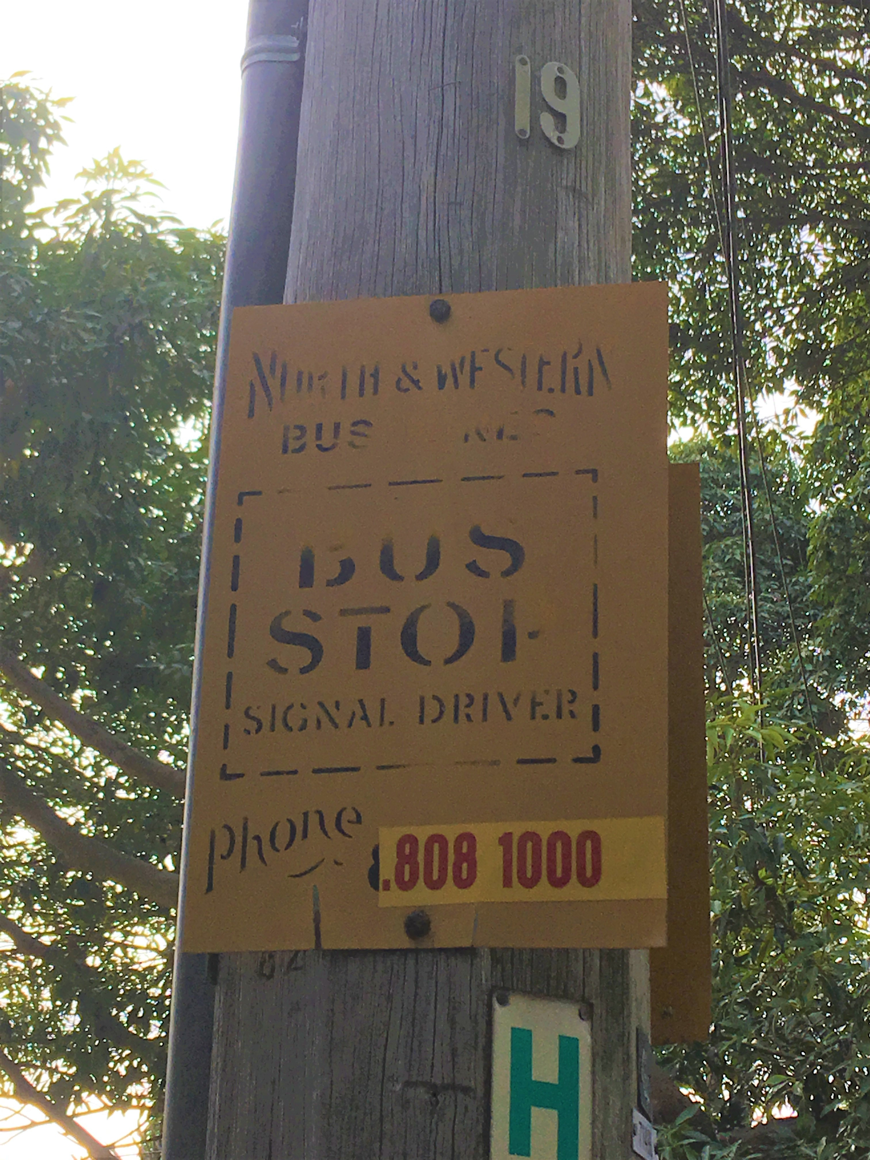 Remnant and disused bus stop sign belonging to North & Western Bus Lines in Lane Cove North on Nundah Street